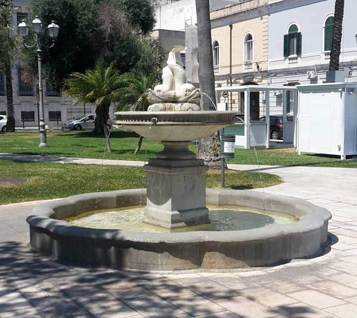 Dolphins' fountain in Brindisi.